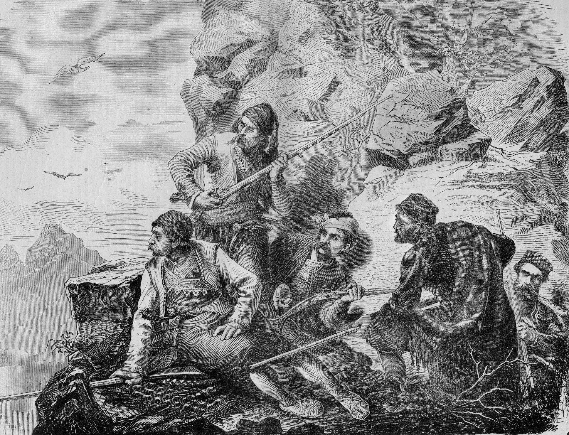 Herzegovinians in ambush, 1875-76, Srbadija, sv. 5, 77